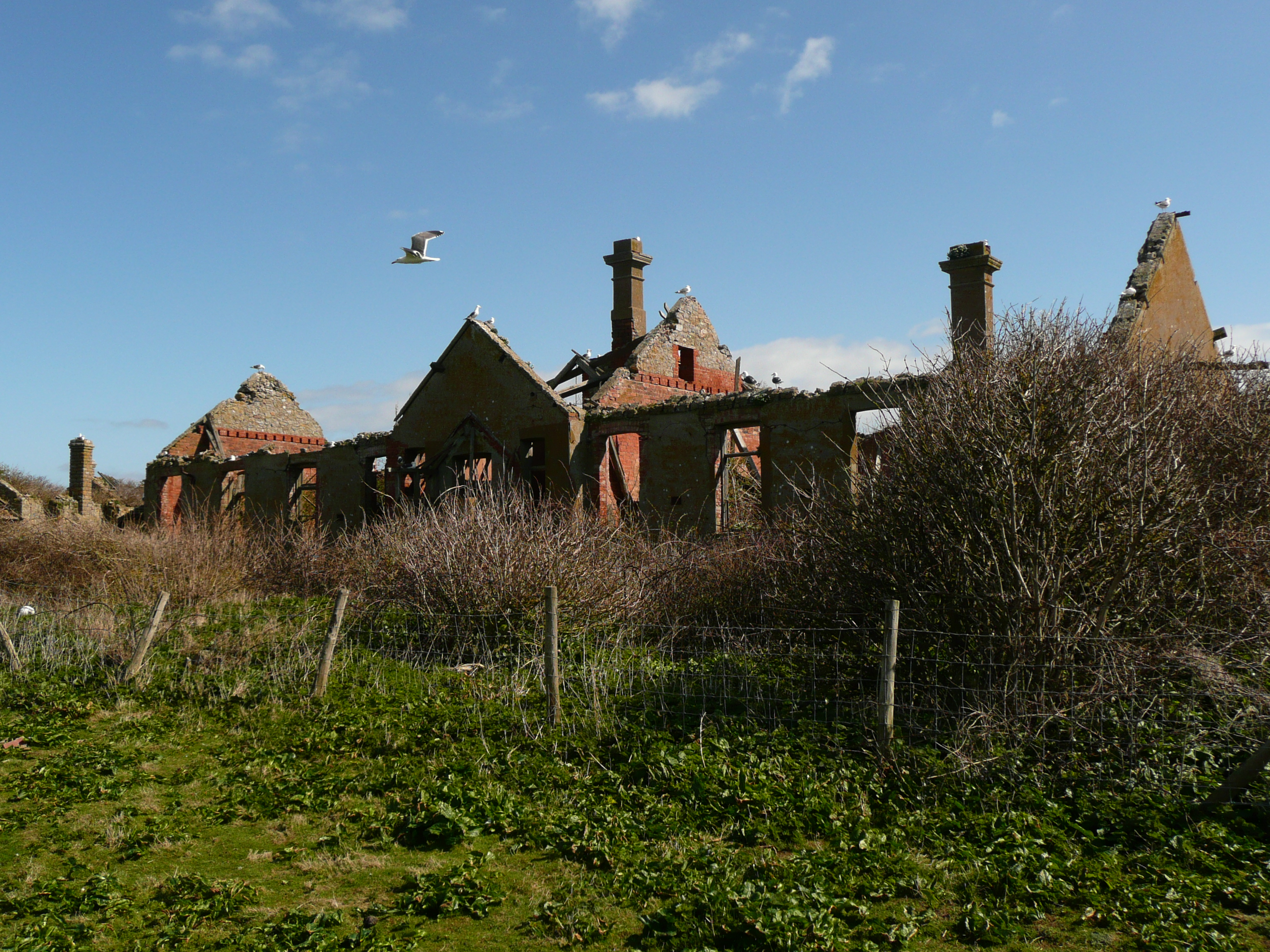 Flat Holm Cholera Hospial ruins